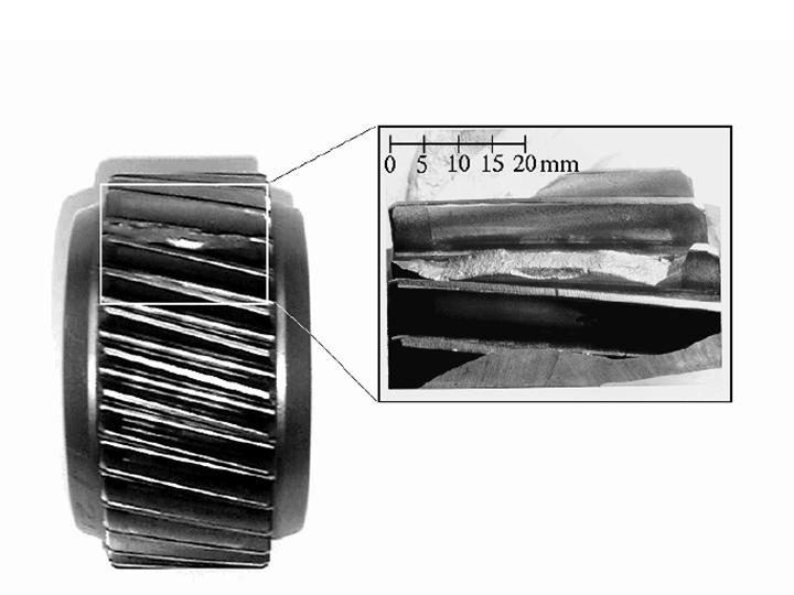 Tooth Interior Fatigue Fracture on intermediate gear